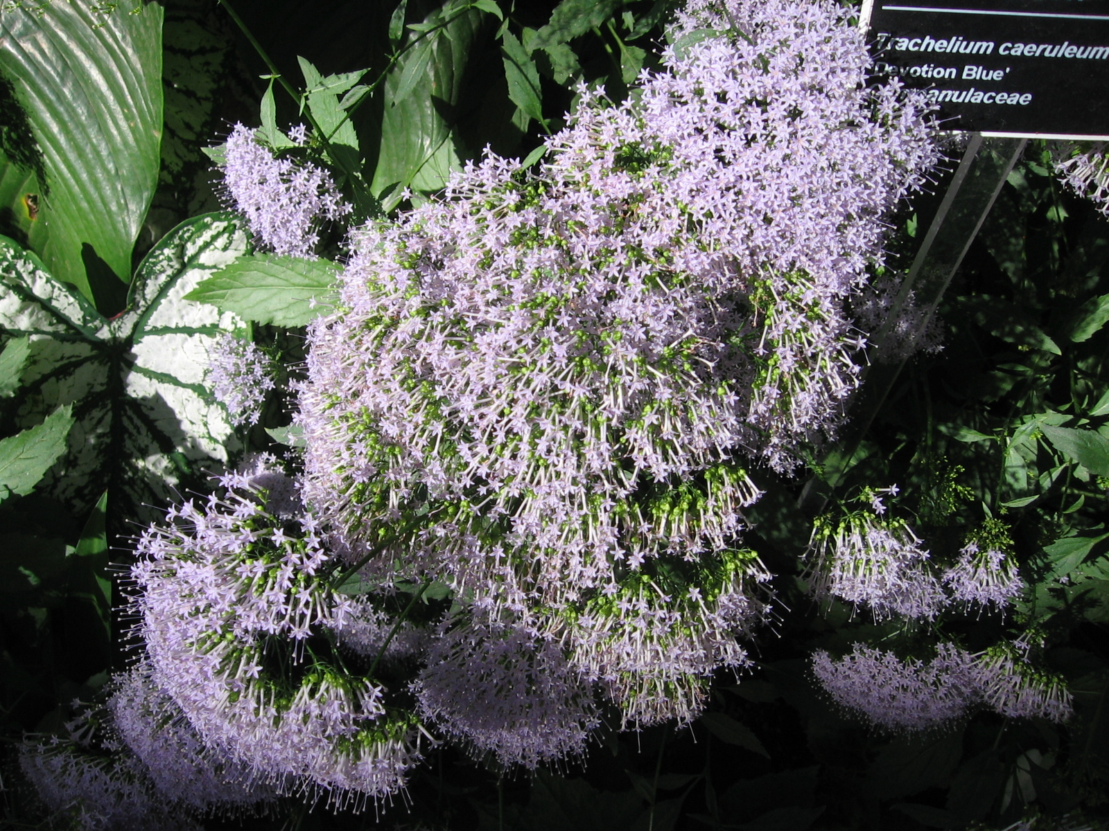 Trachelium caeruleum, Jardin botanique de Montréal.